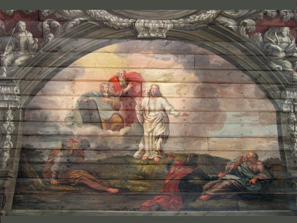 Tönning (Schleswig-Holstein, Germany), Painting in the church St. Laurentius , photo 2006